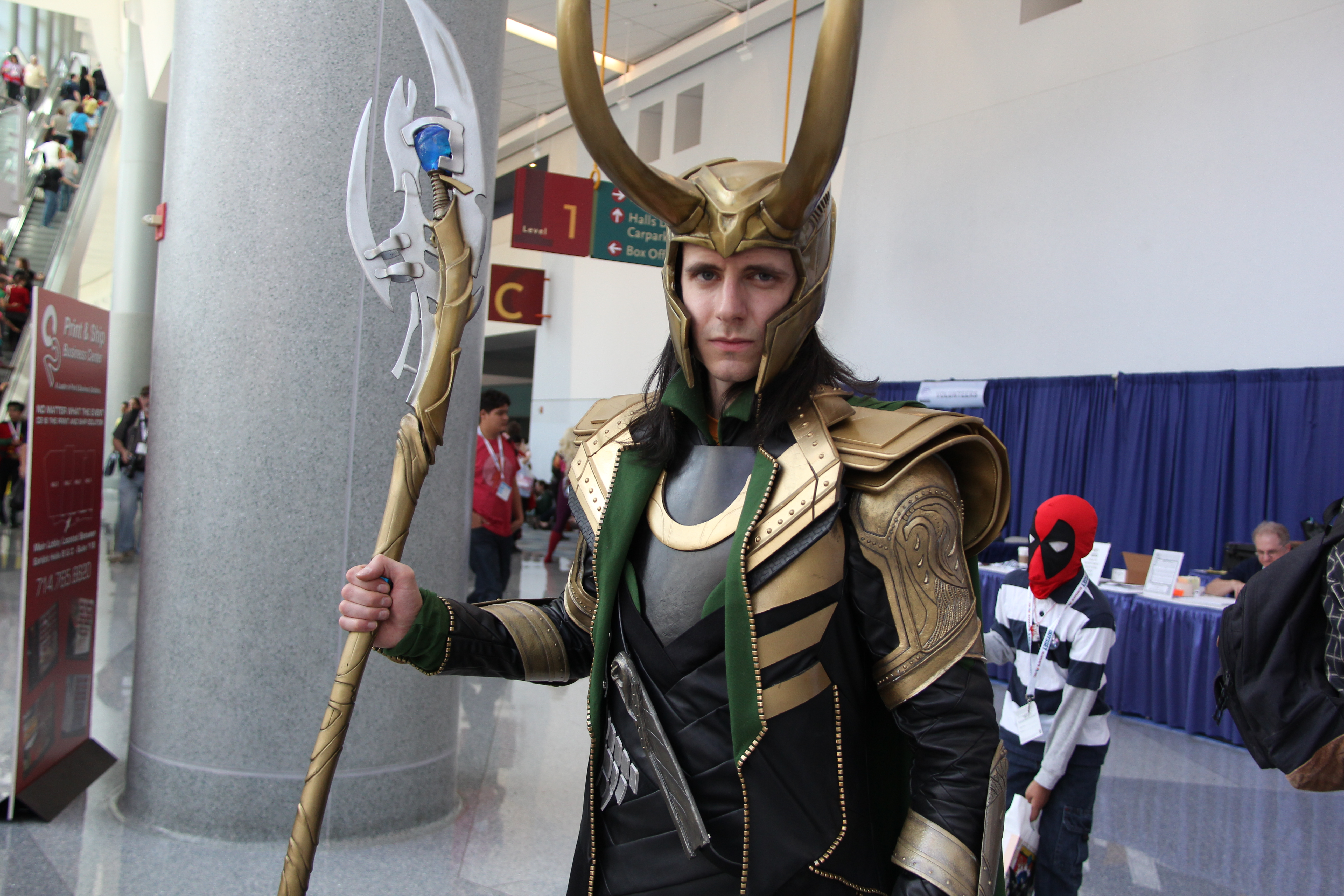 A cosplay of Loki from The Avengers, by the cosplayer Loki Hates You, at WonderCon 2015.